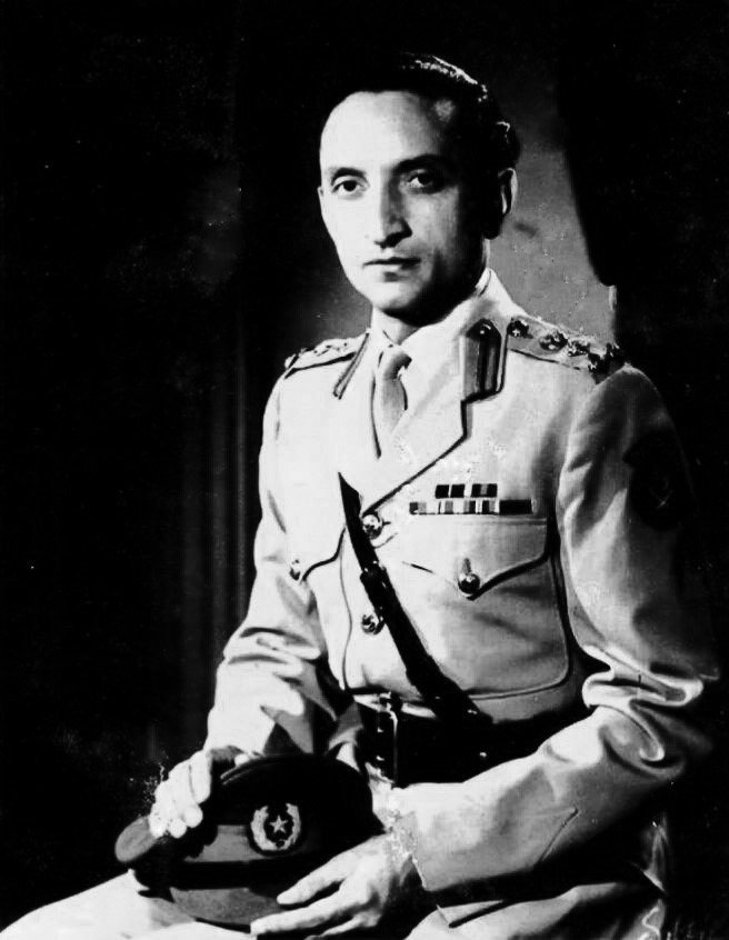 Sahabazada Yaqub Khan former Pakistani diplomat in 1950s as a Colonel.